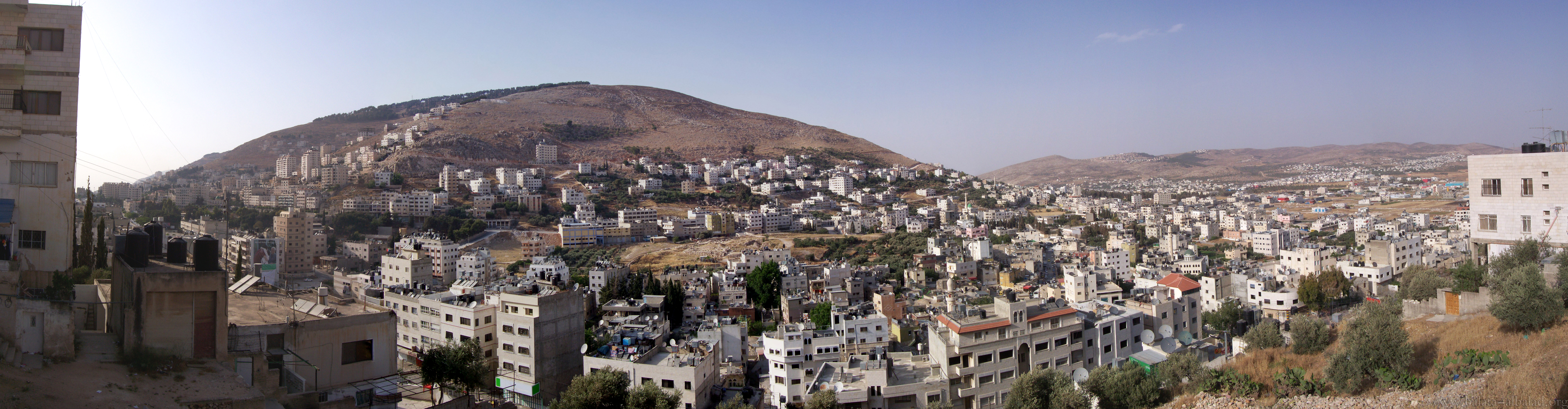 East of Nablus and Balata Albalad - Panorama